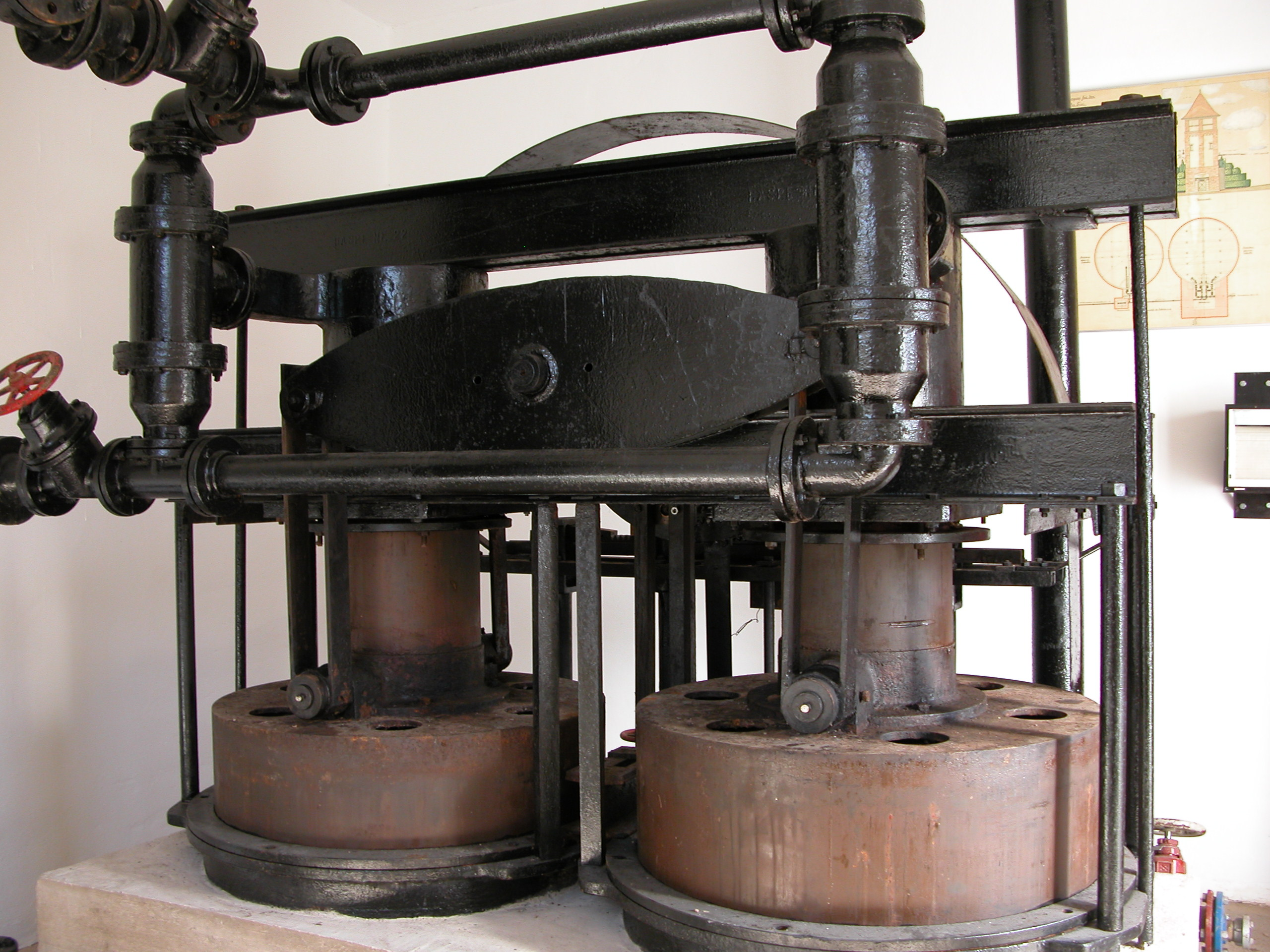 Lambach pump from Roscheider Hof open air museum, Konz, Germany